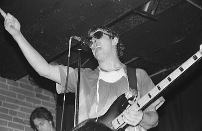 John Cale performing in Maple Gardens, Toronto, 1980